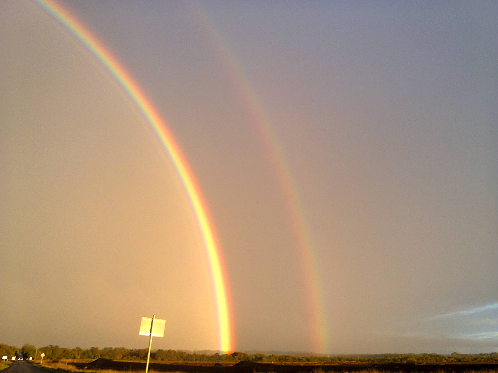 Taken in October 2015 in Keenagh, Longford, Ireland